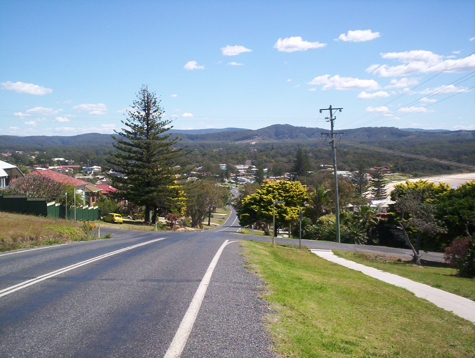 Taken by me, 2005. Woolgoolga as seen from its headland.